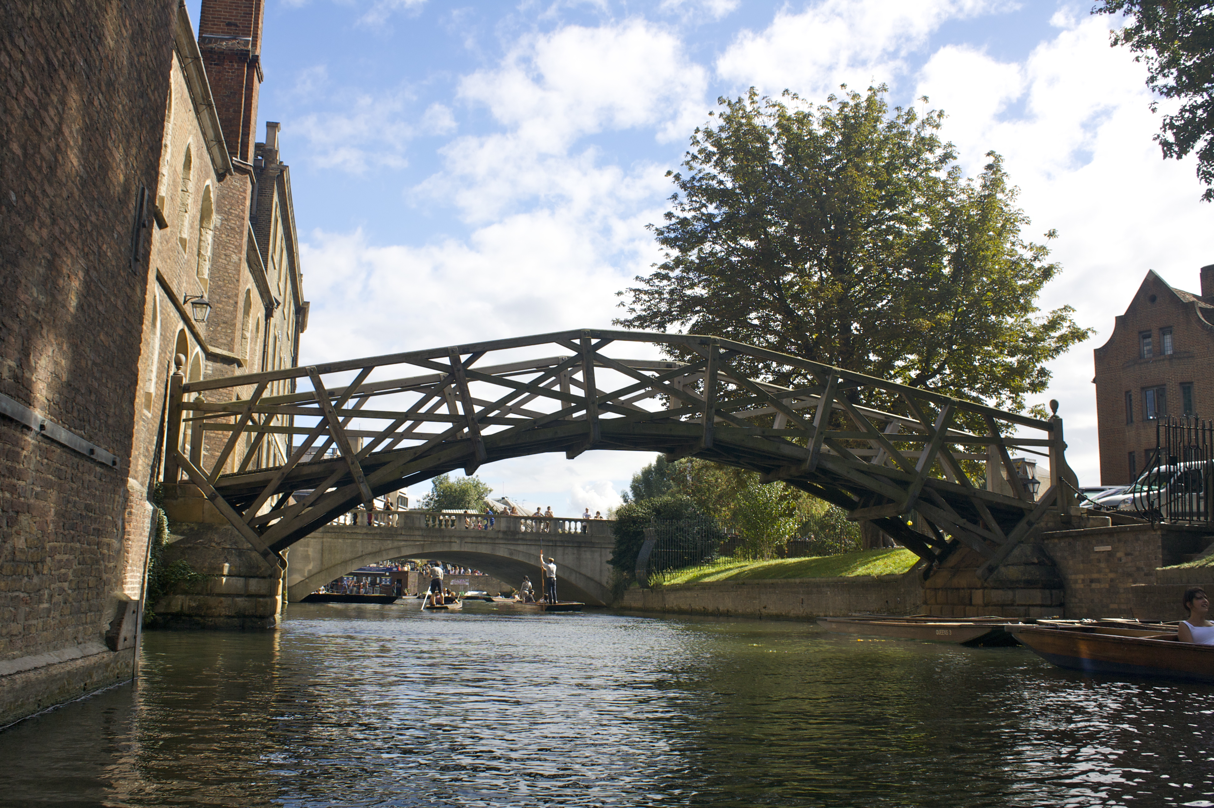 A view of the Mathematical Bridge from The Backs in Cambridge, England